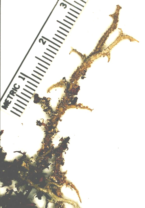 Cladonia scabriuscula (Delise) Nyl. (photograph of a herbarium specimen) Growing in moss in a damp woods near lookout tower at the end of Trail's End Road, near the confluence of the Montreal River with Lake Superior, Ontario, Canada; collected and identified by Richard E. Riefner (No. 81-313, 27 Jun 1981); specimen is now in the Lichen Herbarium of the New York Botanical Garden. (millimeter scale)